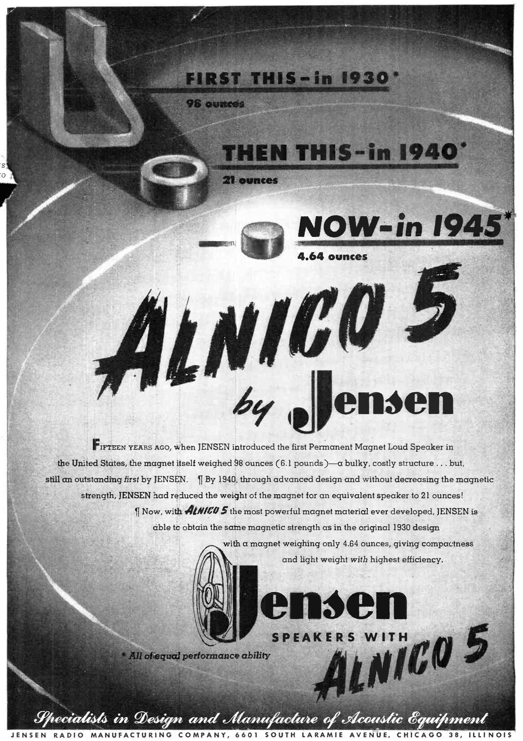 Advertisement by Jensen Radio Manufacturing Co. in 1945 for speakers made with Alnico 5 magnets, a new type of permanent magnet which had been developed during World War 2. As illustrated in the ad Alnico 5, the most powerful magnet yet developed, allowed a dramatic reduction in the size of speaker magnets from 98 ounces in 1930 to 4.65 oz. Alnico remained the most powerful type of permanent magnet until rare earth magnets were developed in the 1980s.